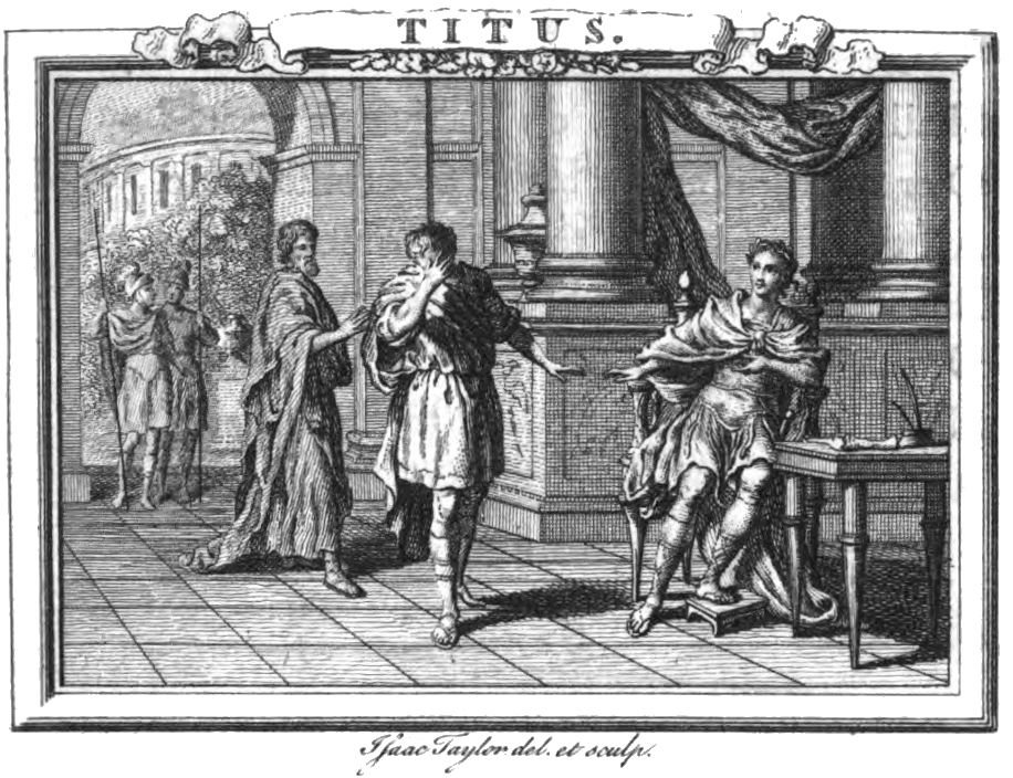 Metastasio - Titus - Hoole Vol.2 - London 1767